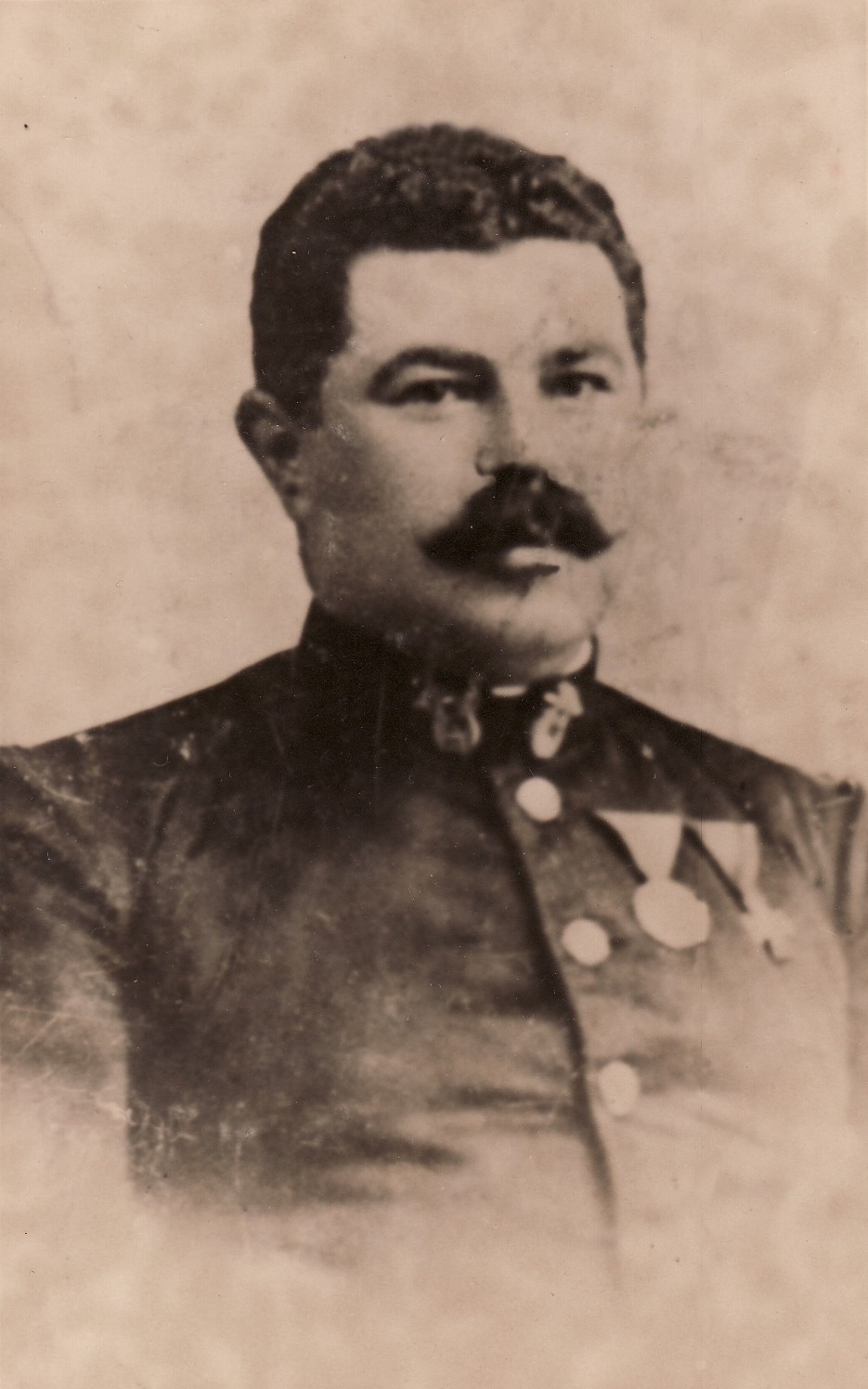 Wilhelm Pawlik, 1866-1922